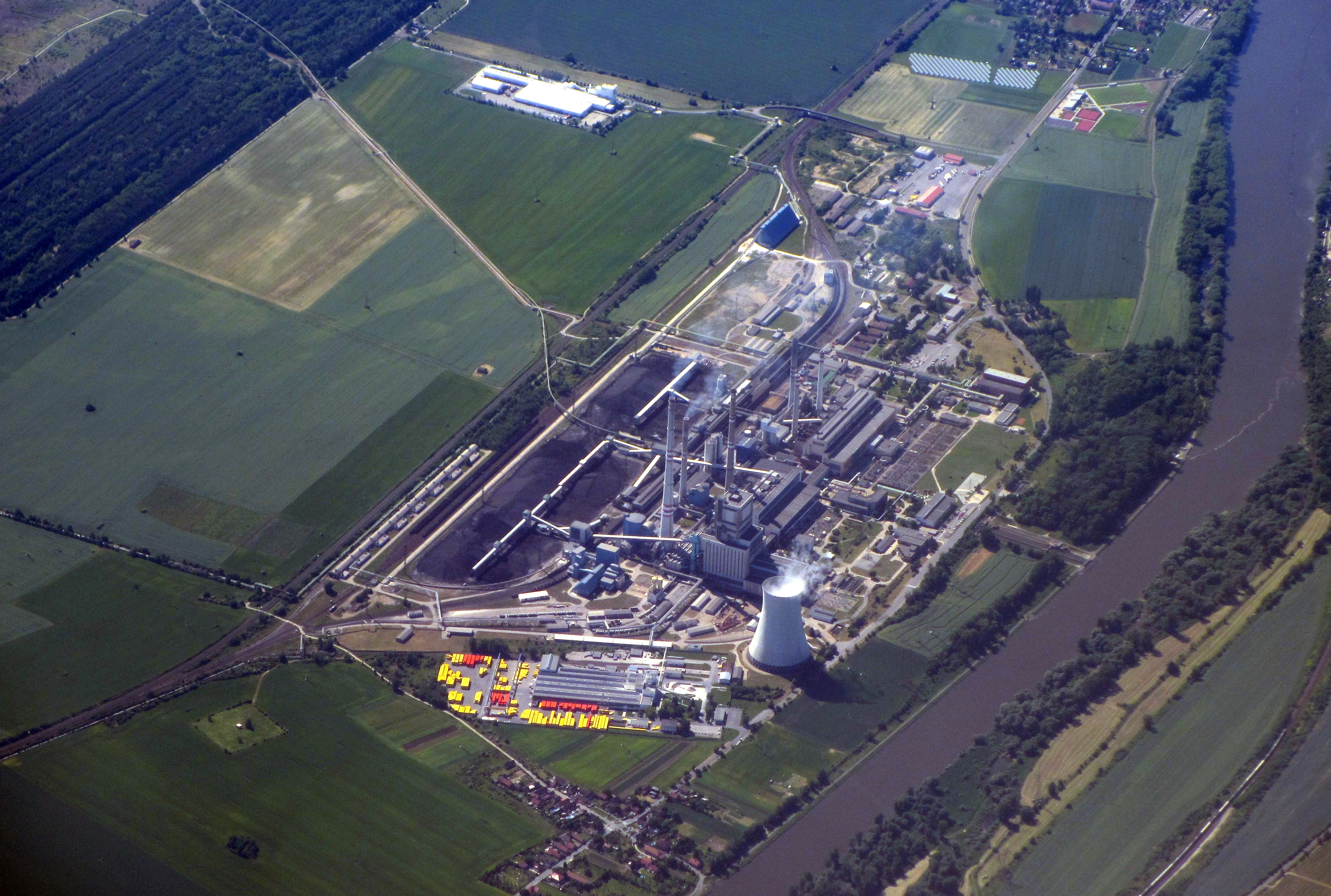 Aerial view to the Mělník power plant, Czech Republic